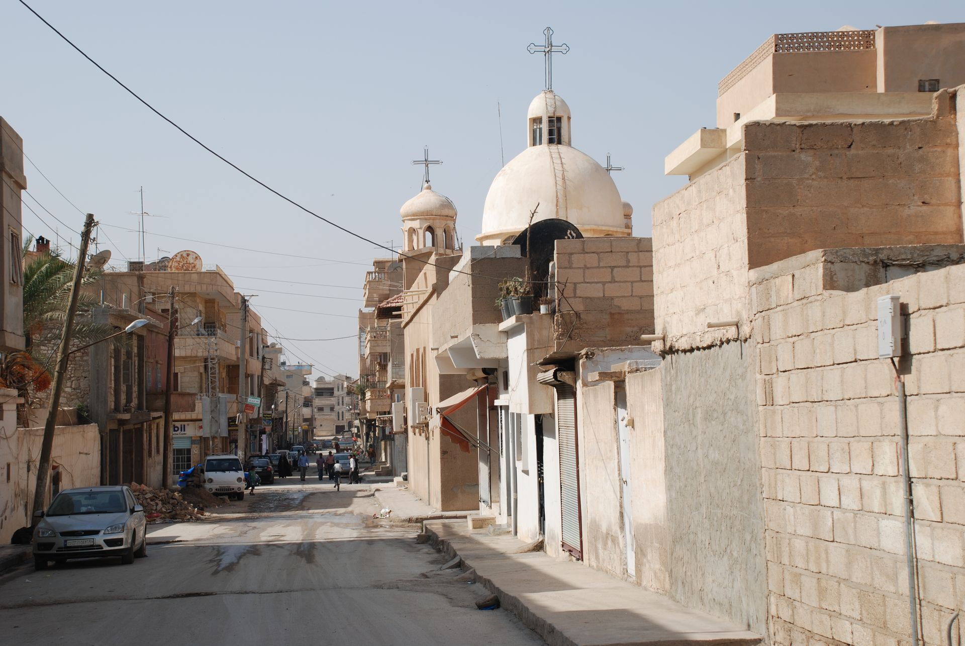 Ras al-Ayn, Syria, side street with orthodox church